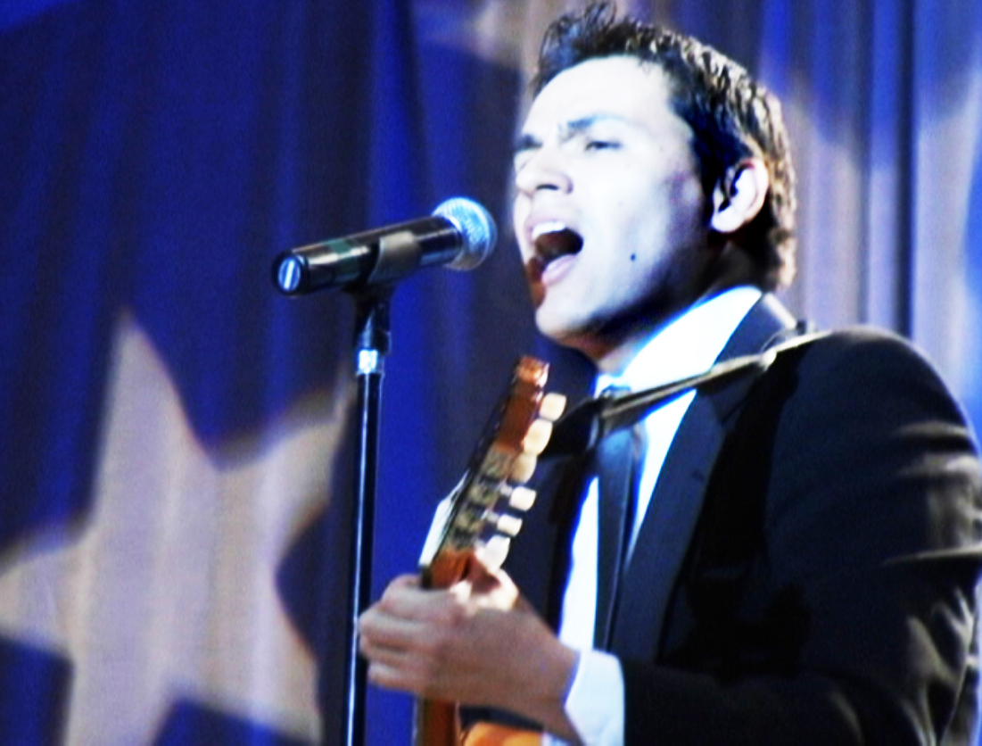 Andres Useche sings at Presidential Inaugural Gala